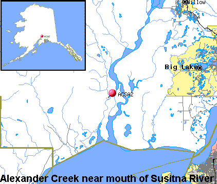 Map showing where confluence of Alexander Creek (Susitna River) and Susitna River is in South Central Alaska, and Alaska